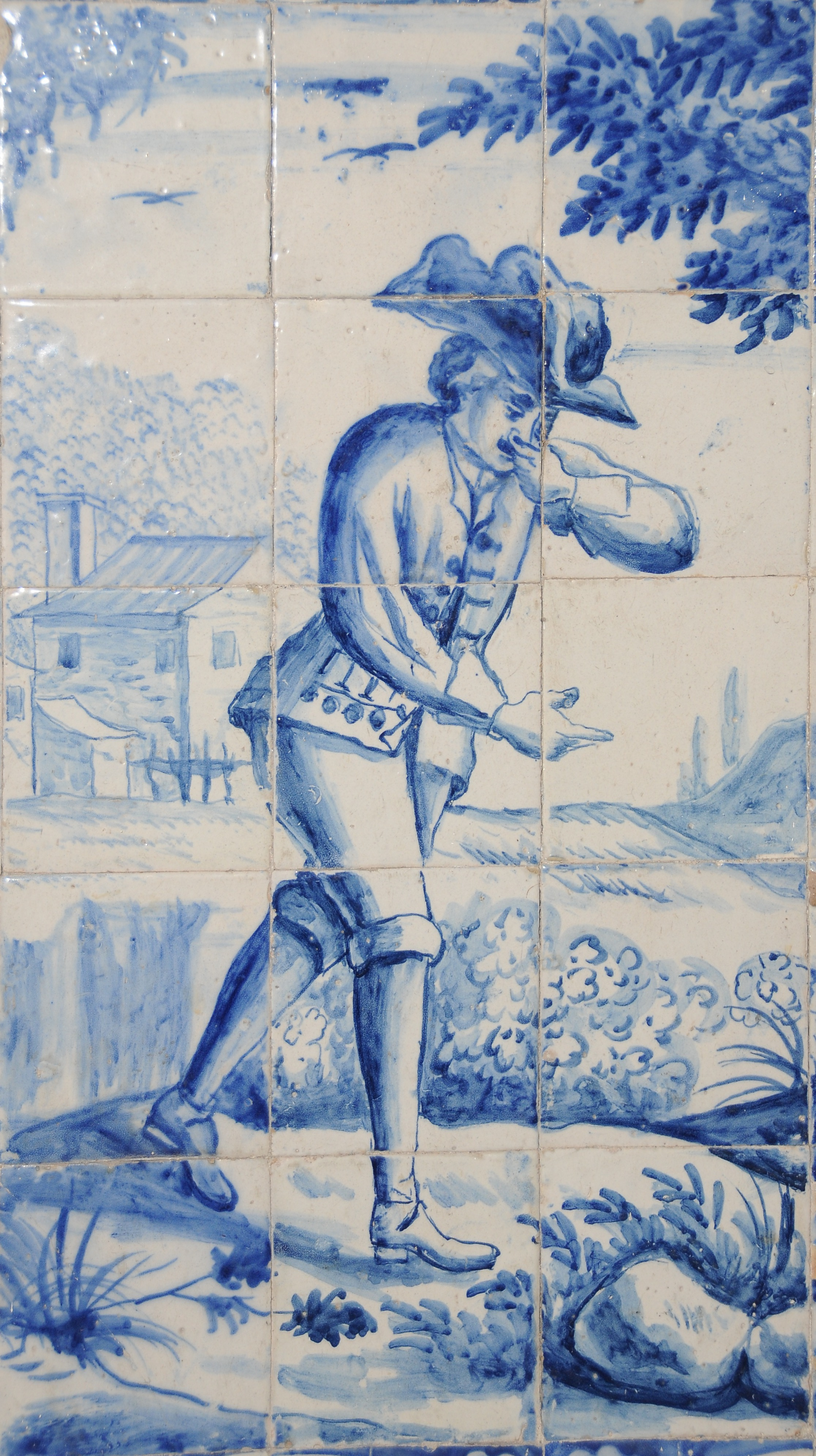 Azulejos in Archiepiscopal Court, Largo do Paço, Braga, Portugal.